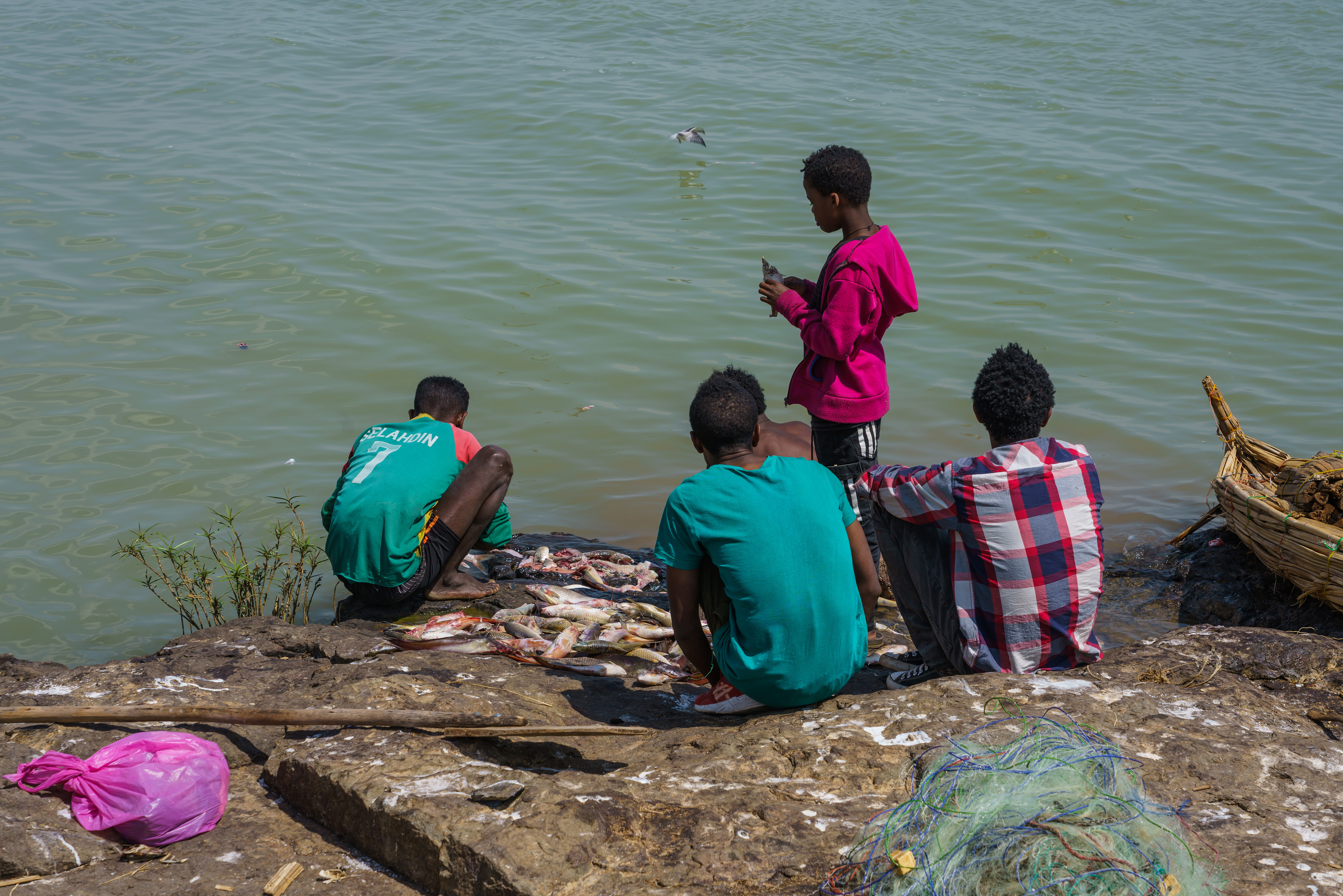 Lake Tana at Gorgora near Gondar, Ethiopia